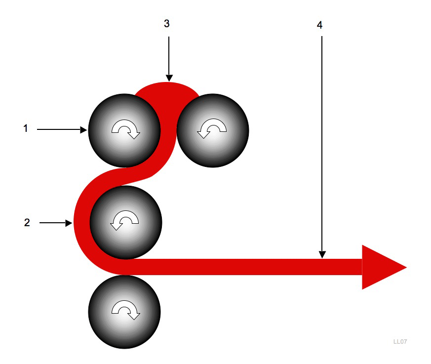 Calender_process. Visualization of the calender process. April 2007. Laurens van Lieshout.